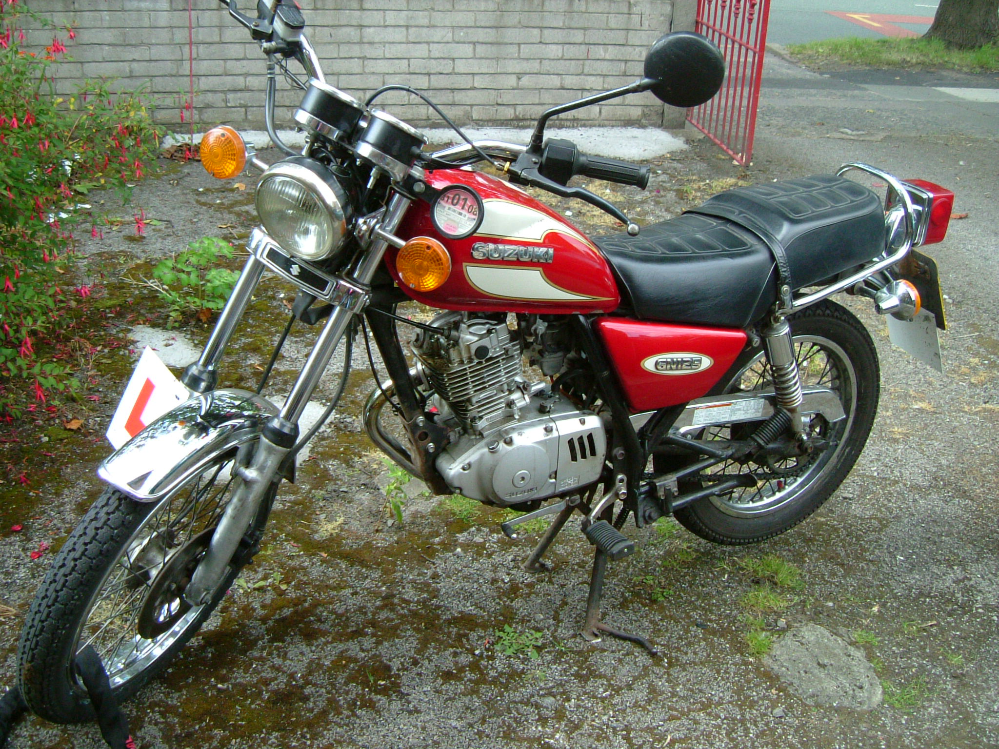 my new toy / day 3 of owning my motorbike, only the 4th day of riding. i rode from otley to liverpool. 75miles. all on my lonesome.